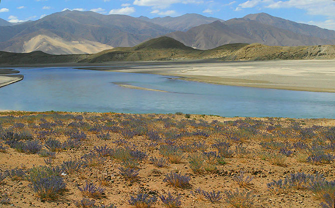 Yarlung Zangbo River, Tibet Autonomous Region, China